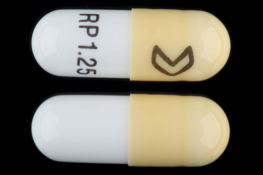 Drug Name: Ramipril 1.25 MG Oral Capsule Ingredient(s): Ramipril Drug Label Imprint: RP;1;25 Color(s): Yellow Shape: Capsule *Size (mm): 14.00 Score: 1 Inactive Ingredient(s): ShowHide starch, corn / gelatin / titanium dioxide / ferric... starch, corn / gelatin / titanium dioxide / ferric oxide yellow Drug Label Author: Cobalt Laboratories Inc. DEA Schedule: Non-scheduled